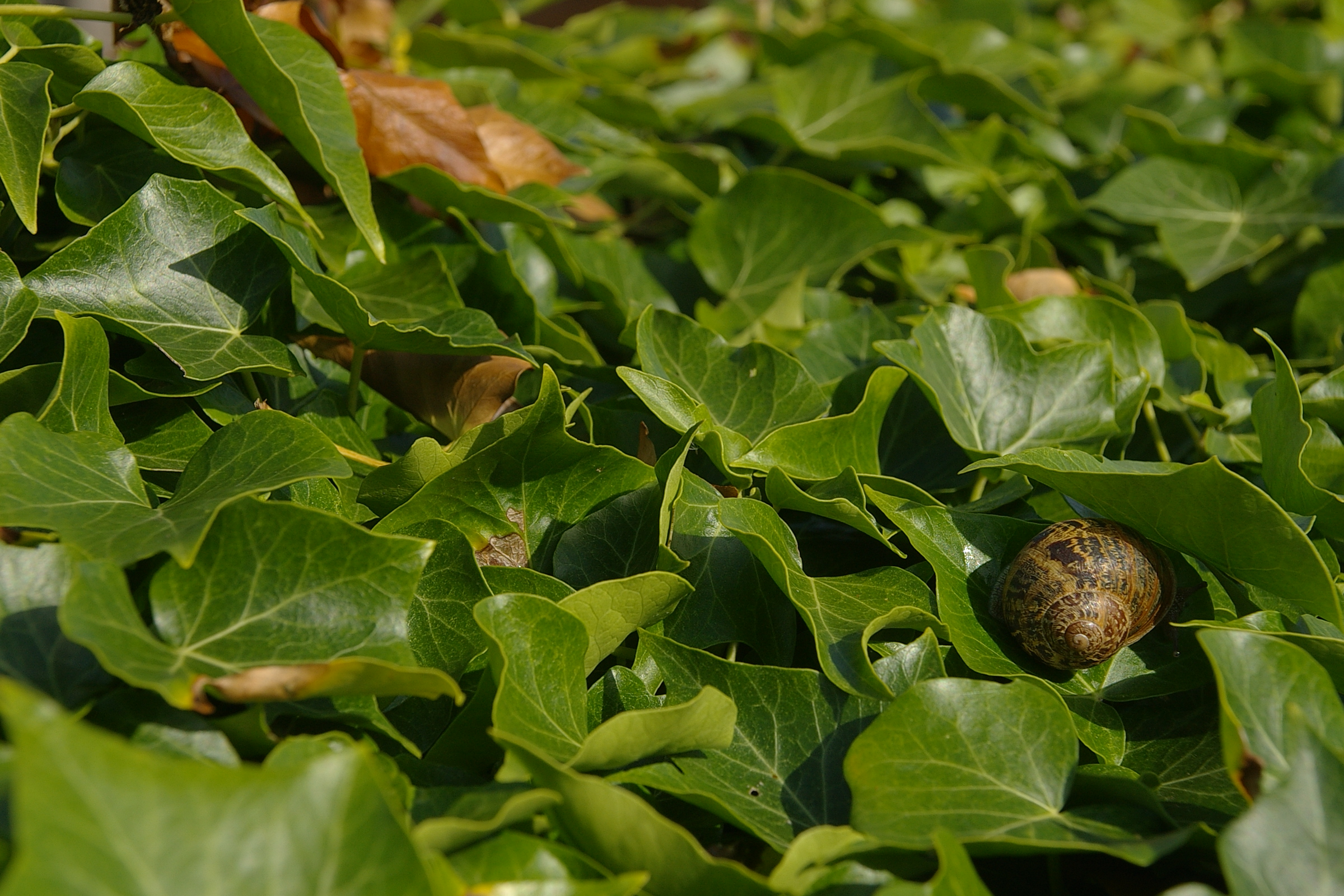 A snail on the B3129 Station Road bridge over the Bristol to Exeter line in Flax Bourton.